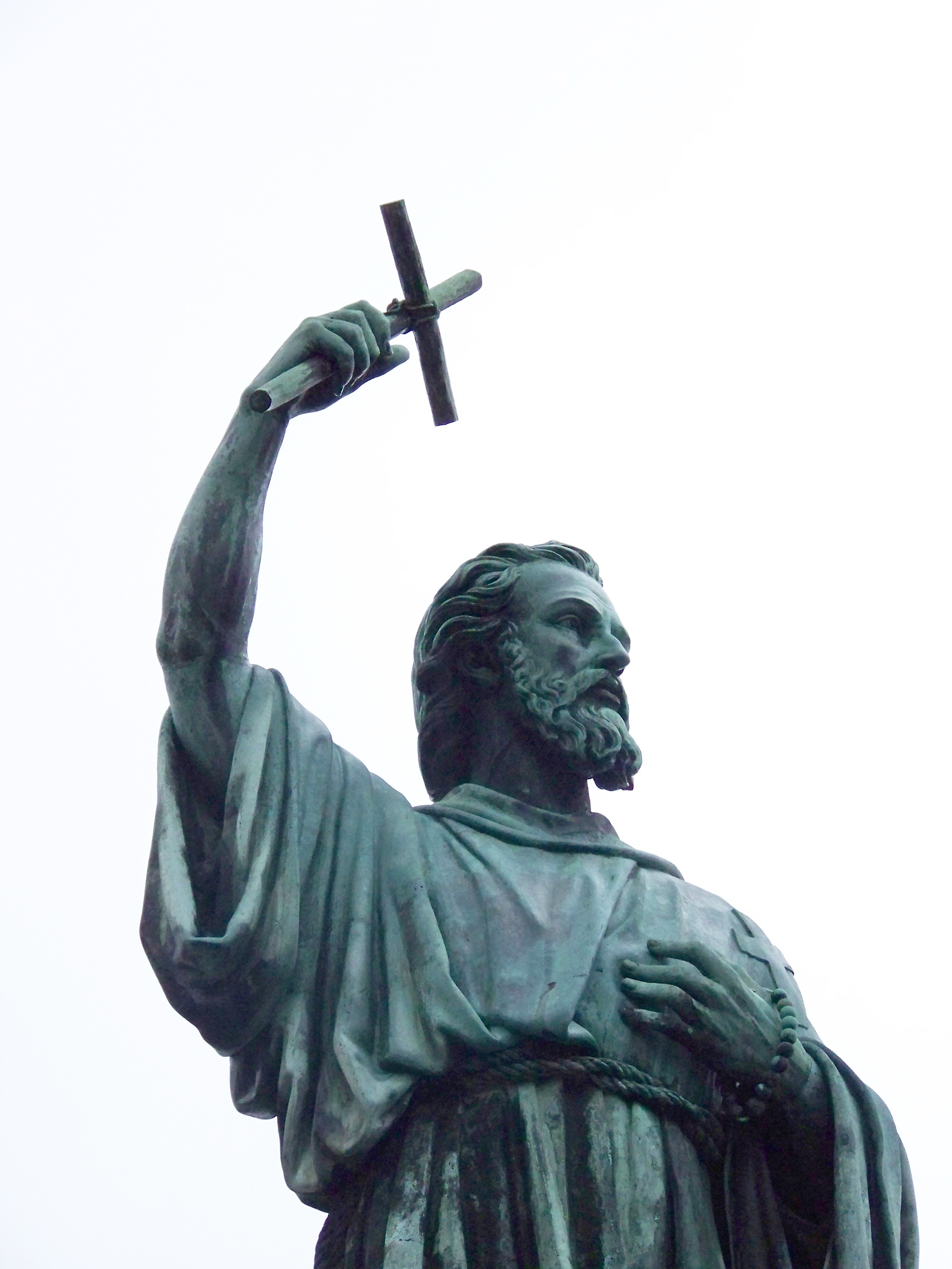 Statue of Saint Peter the Hermit (Saint Peter of Amiens) behind the cathedral of Amiens, France, by Gédéon de Forceville (1854).